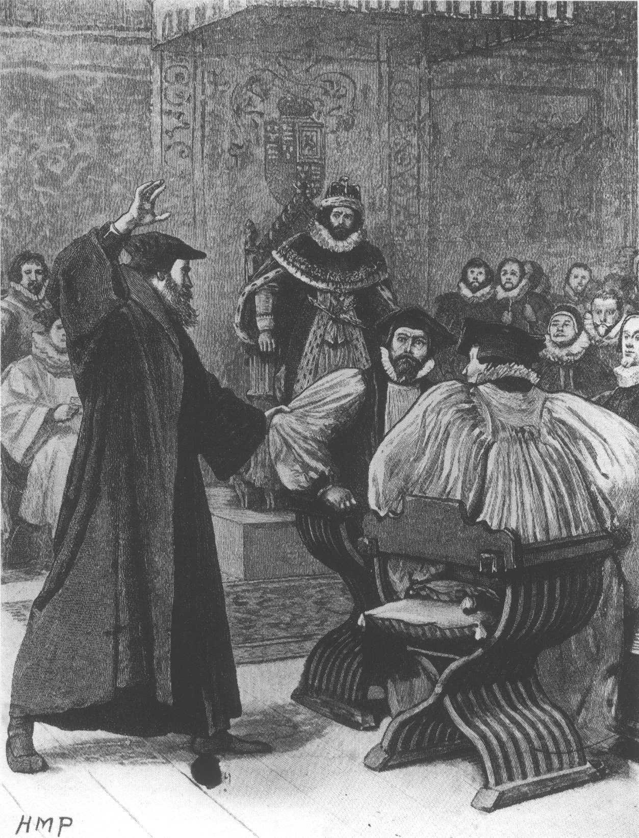 The image appears to have been inspired by the well-known story of how Melville took James by the sleeve, telling him, "Sir, as divers tymes befor, sa now again, I maun tell ye, ye are God's sillie vassal; thair are twa kings and twa kingdomes in Scotland: thair is King James, the heid of the commonweal; and thair is Chryst Jesus, and his kingdome the Kirk, whase subject James the Saxt is, and of whase kingdom nocht a king, nor a lord, nor a heid, but a member."